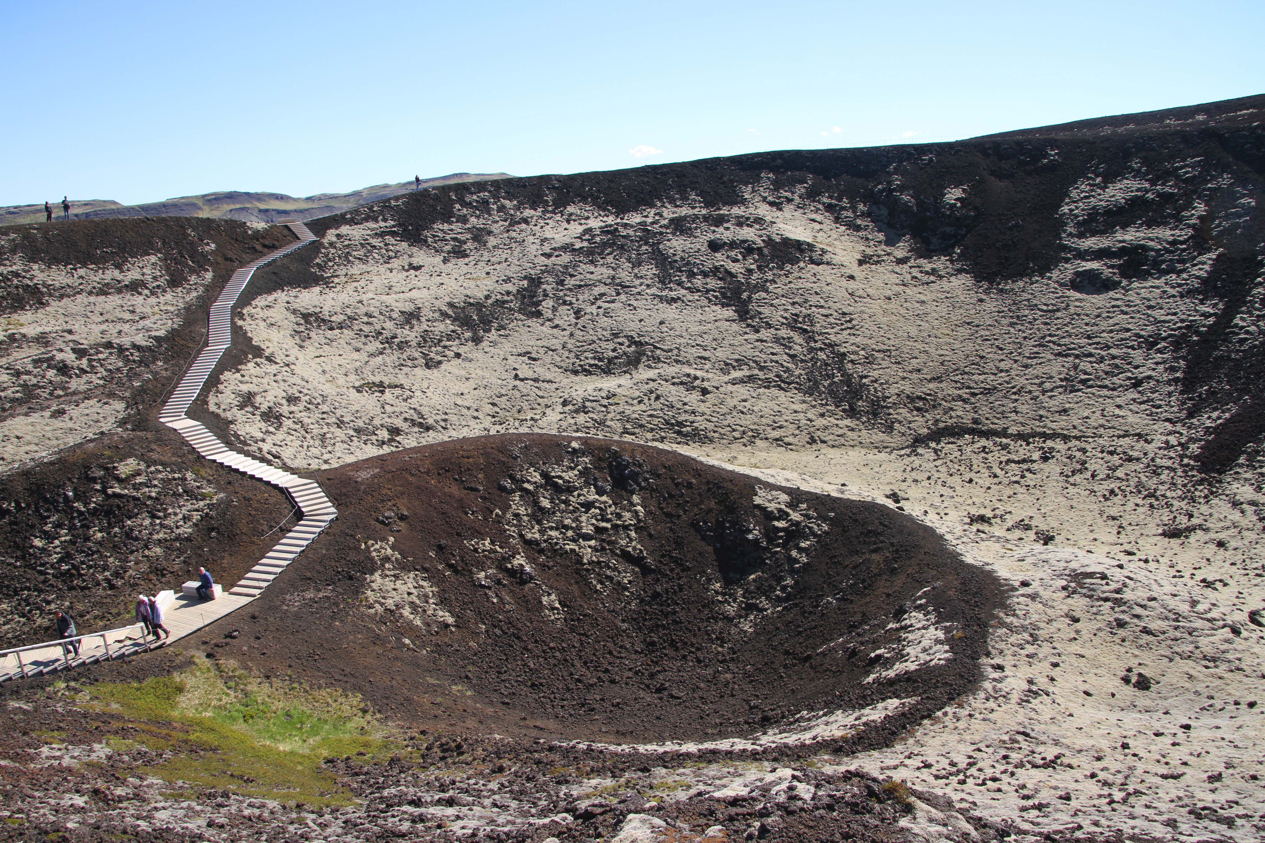 Grábrók volcanic field